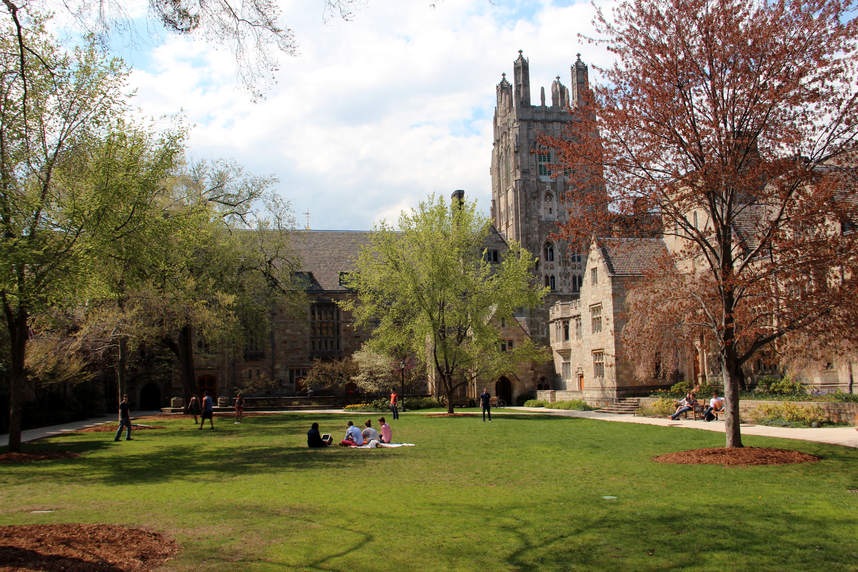 Branford Court towards the west, including Wrexham tower and the Saybrook dining hall (at right), at Yale University, New Haven, CT